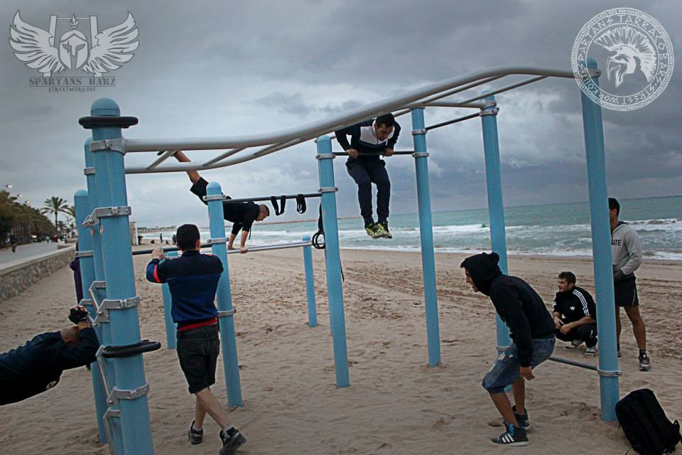 Street Workout for Spartans Tarraco in Calafell. Project by Microarquitectura.